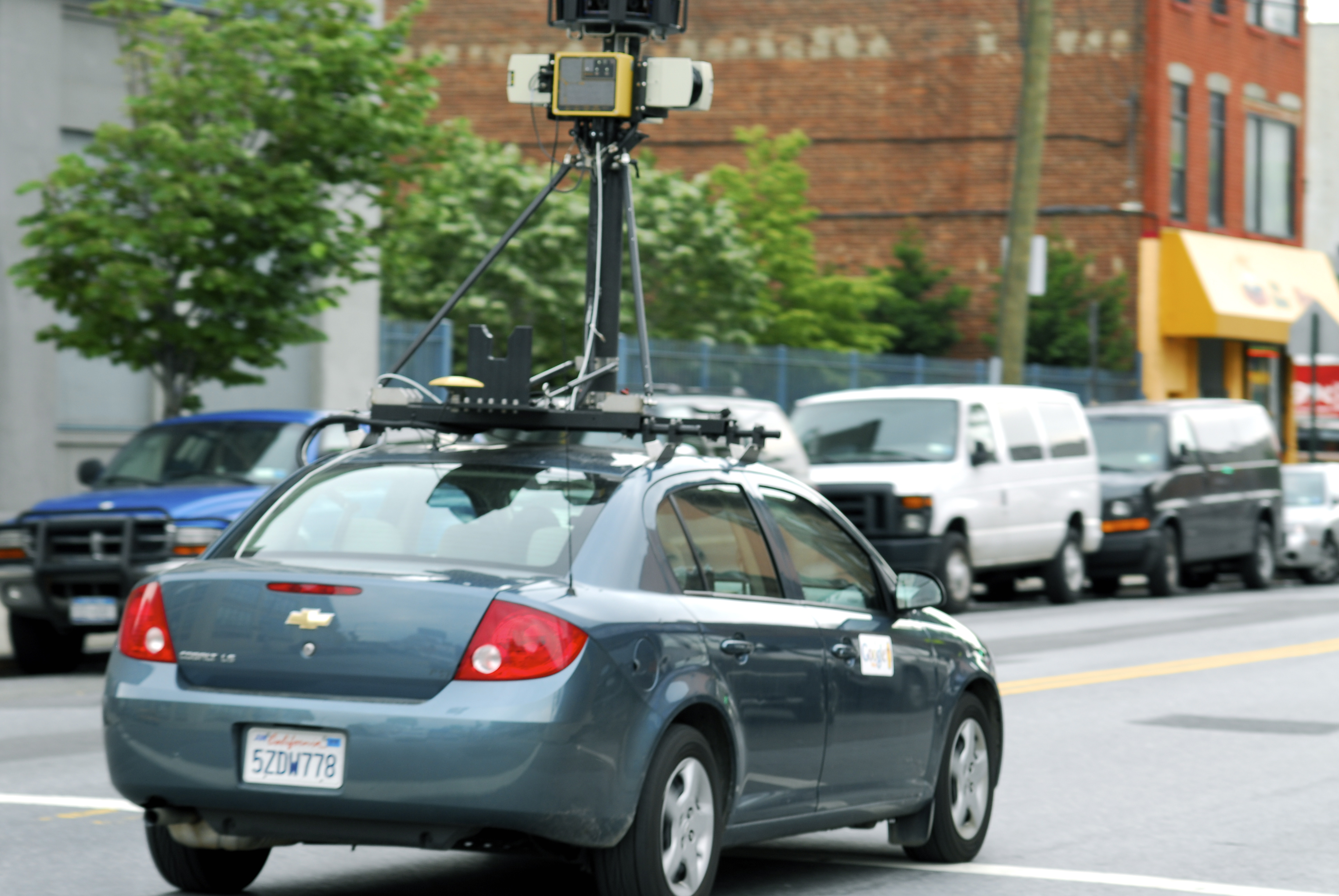 Google Street View Car in Hunters Point, Long Island City, Queens, New York City.